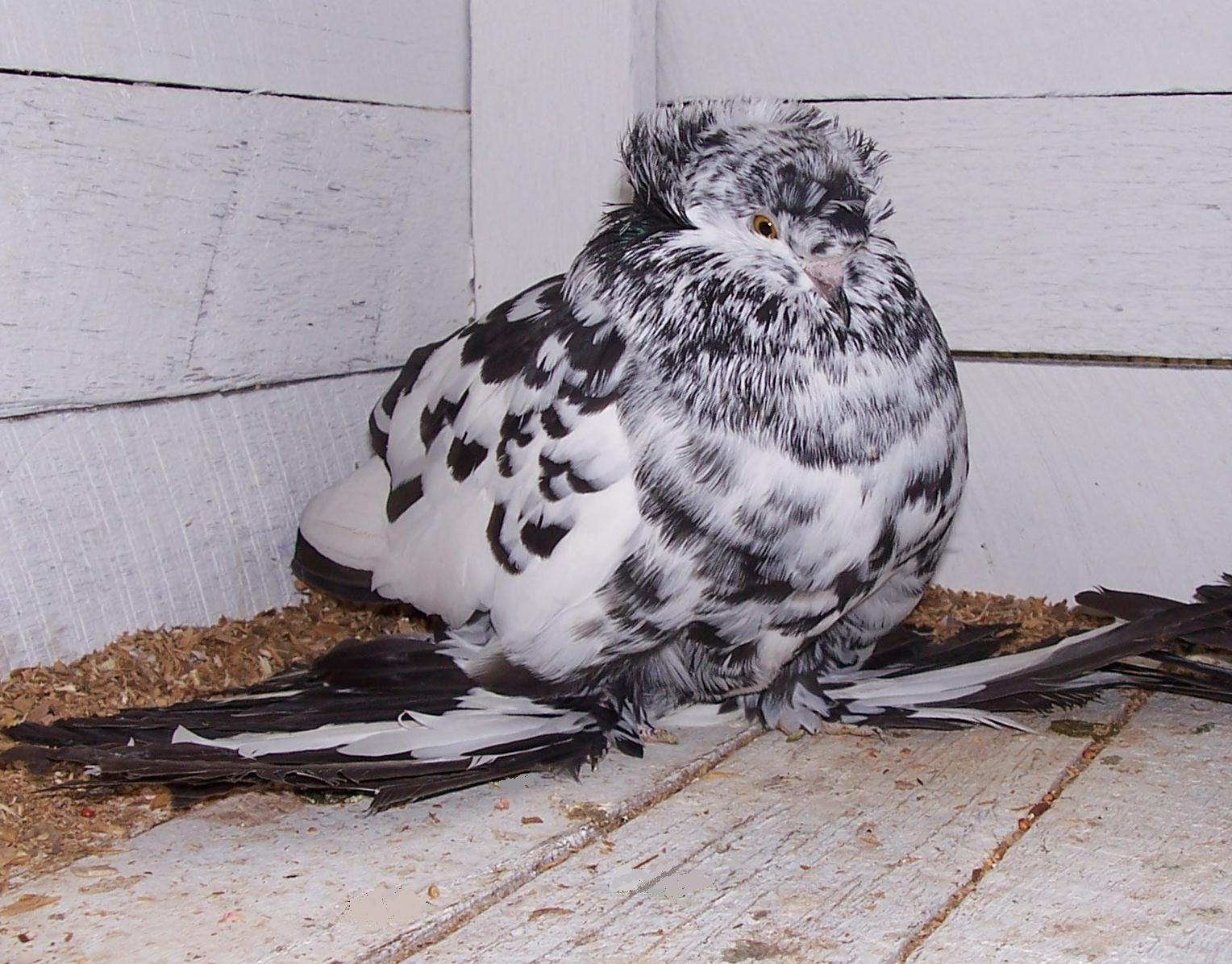 An English Trumpeter pigeon at the 2008 Queensland State Show. This bird is owned by Alan Watts.